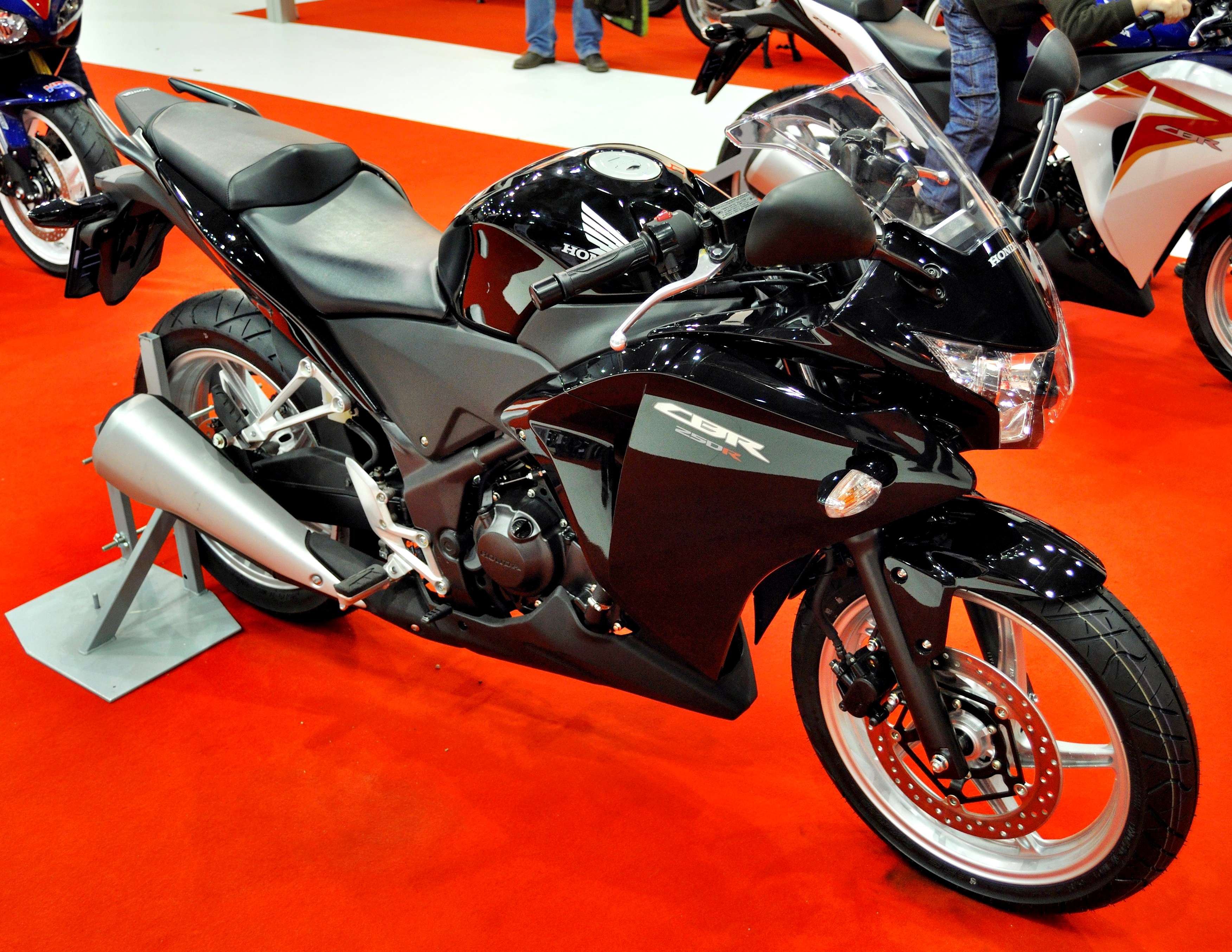 2011 black Honda CBR250R at Motosalon, Prague, Czech Republic